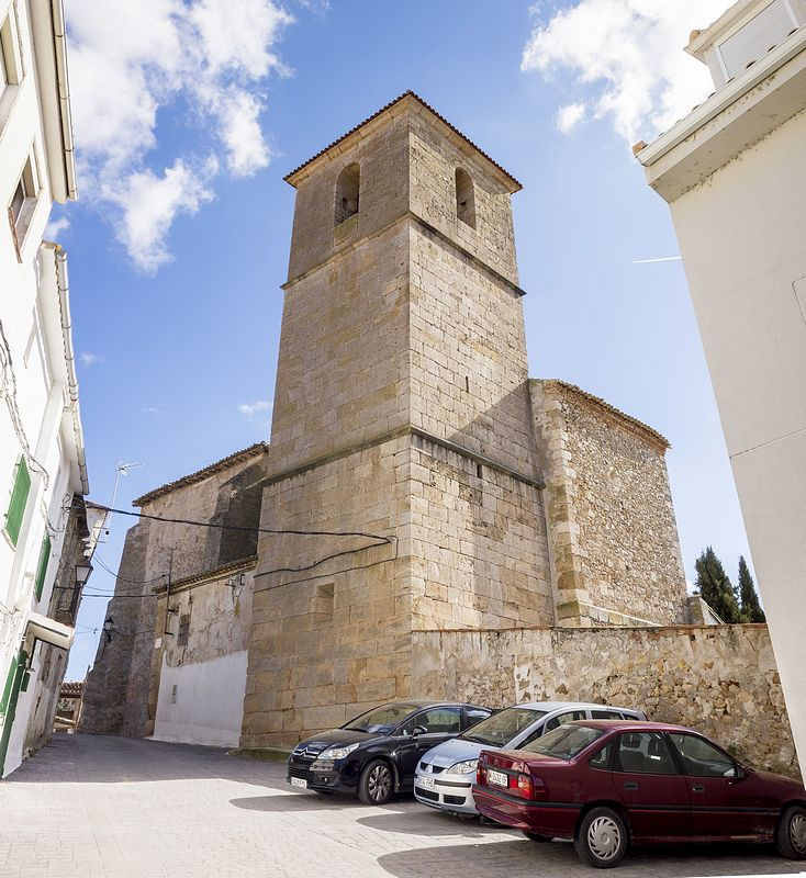 Iglesia